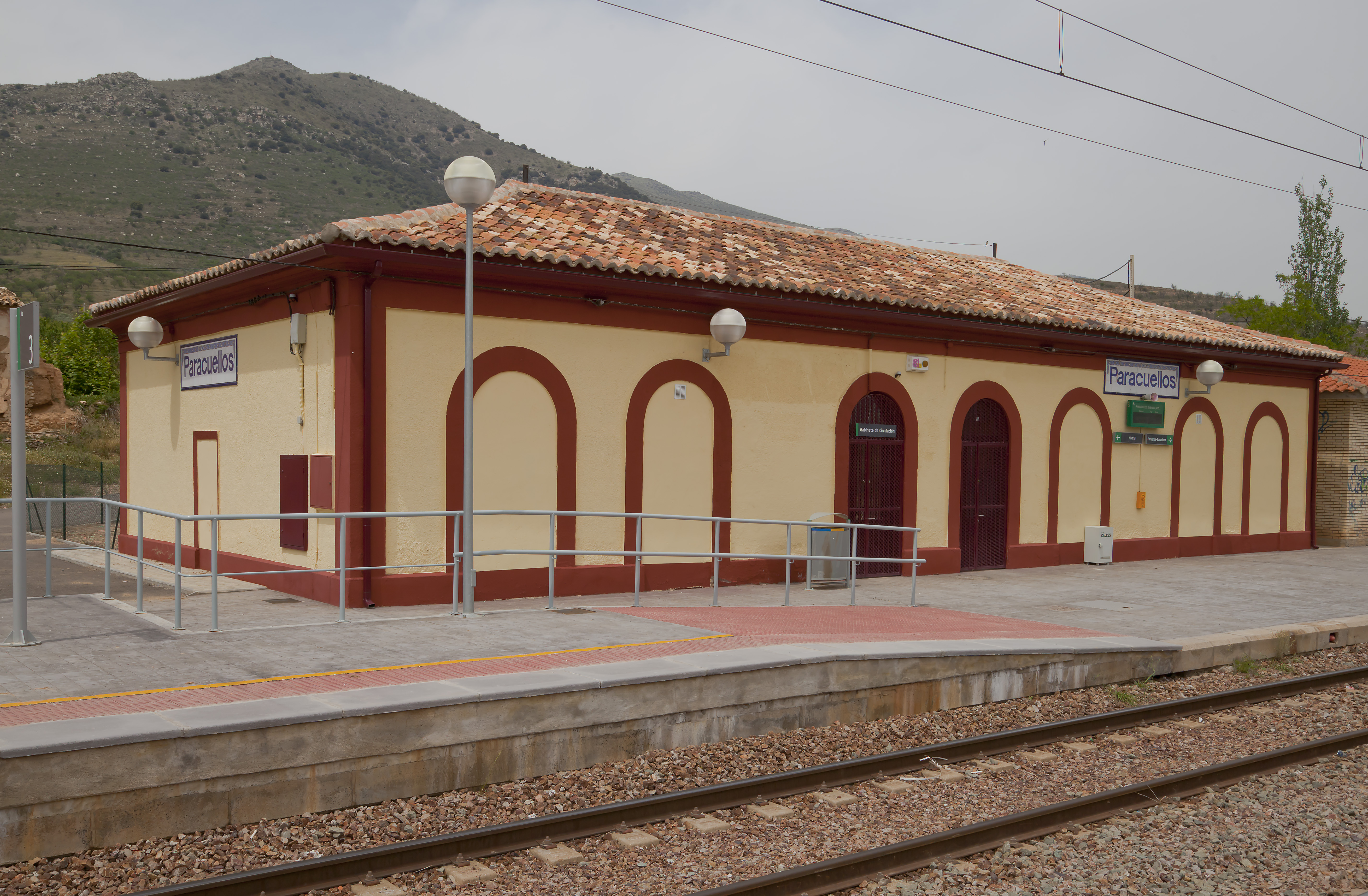 Train station, Paracuellos, Spain